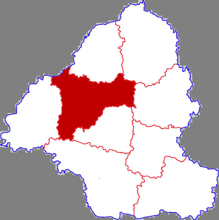 Location of Mudan district in Heze City, China